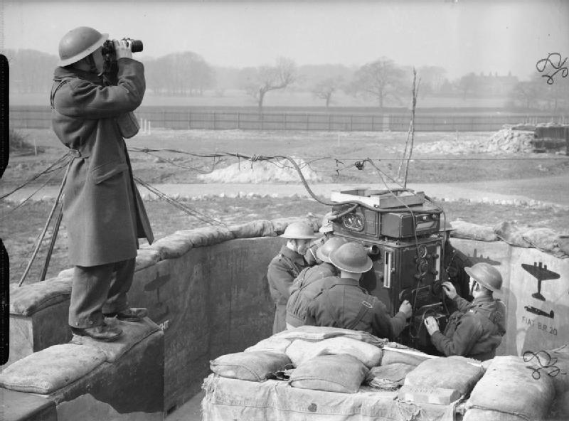 The British Army in the United Kingdom 1939-45 Spotter and predictor operators at a 4.5-inch anti-aircraft gun site in Leeds, 20 March 1941.